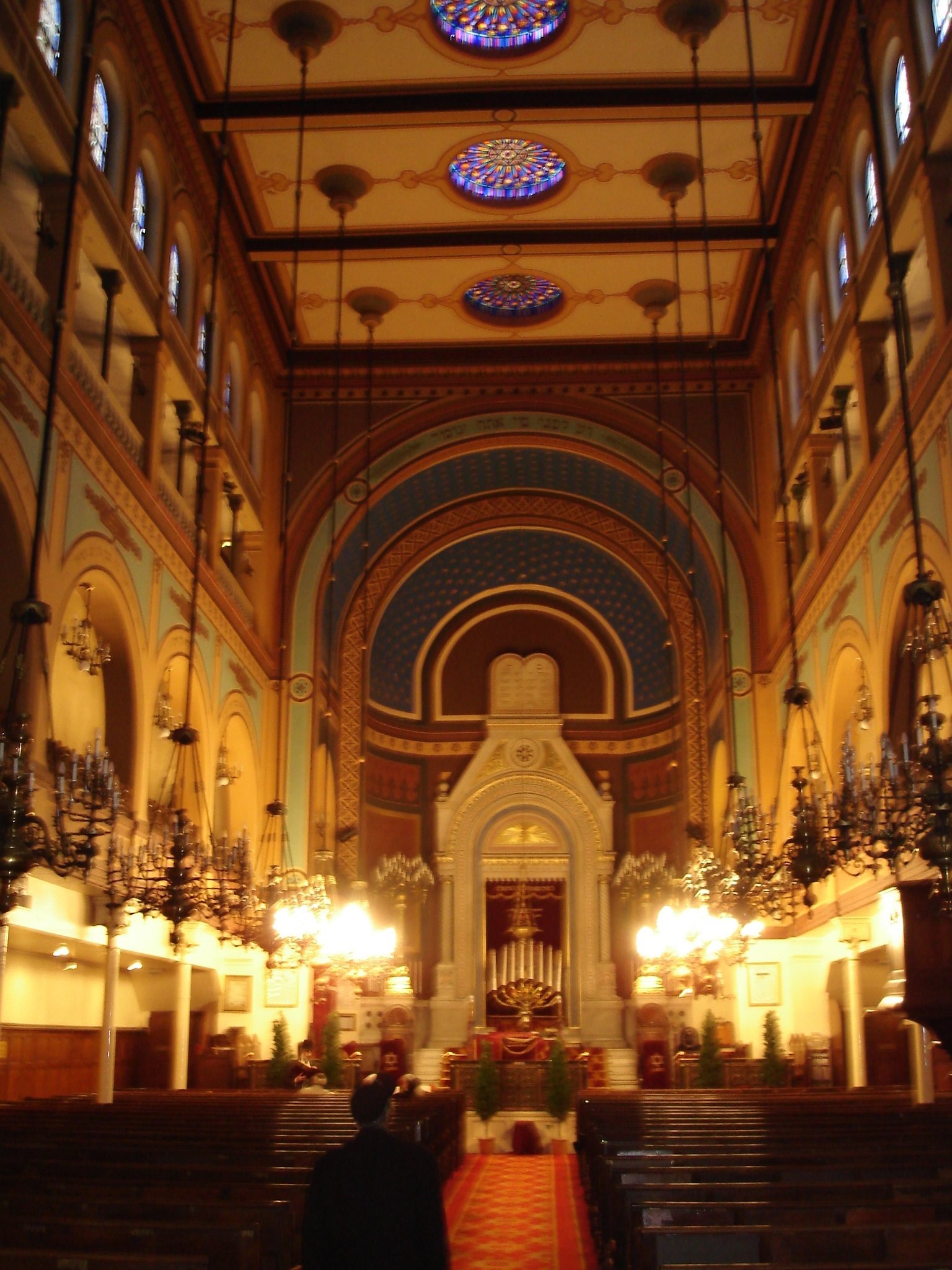 Synagogue de Nazareth, rue Notre Dame de Nazareth in Paris. Internal view